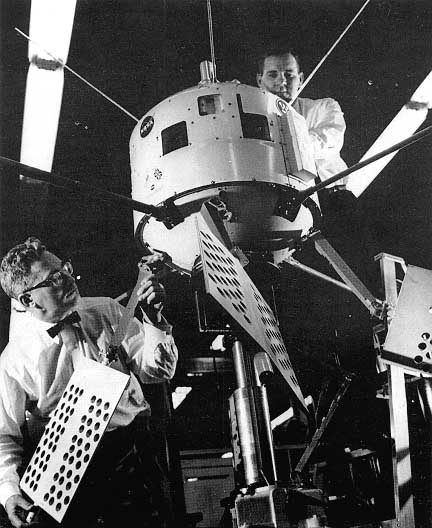 Technicians working upon Ariel 2 satellite